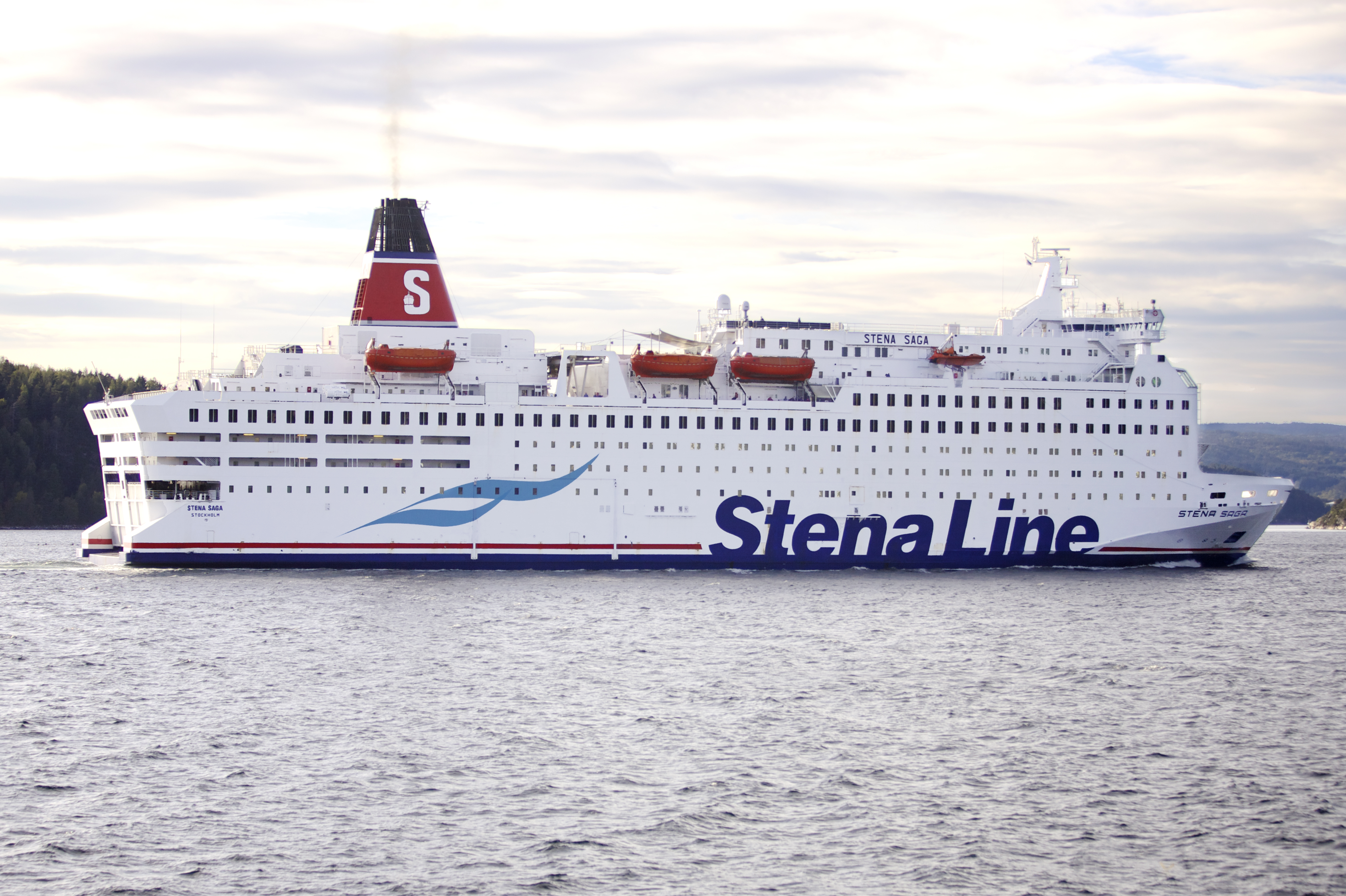 MS Stena Saga of Stena Line in the Oslo Fjord on the Oslo - Fredrikshavn route.